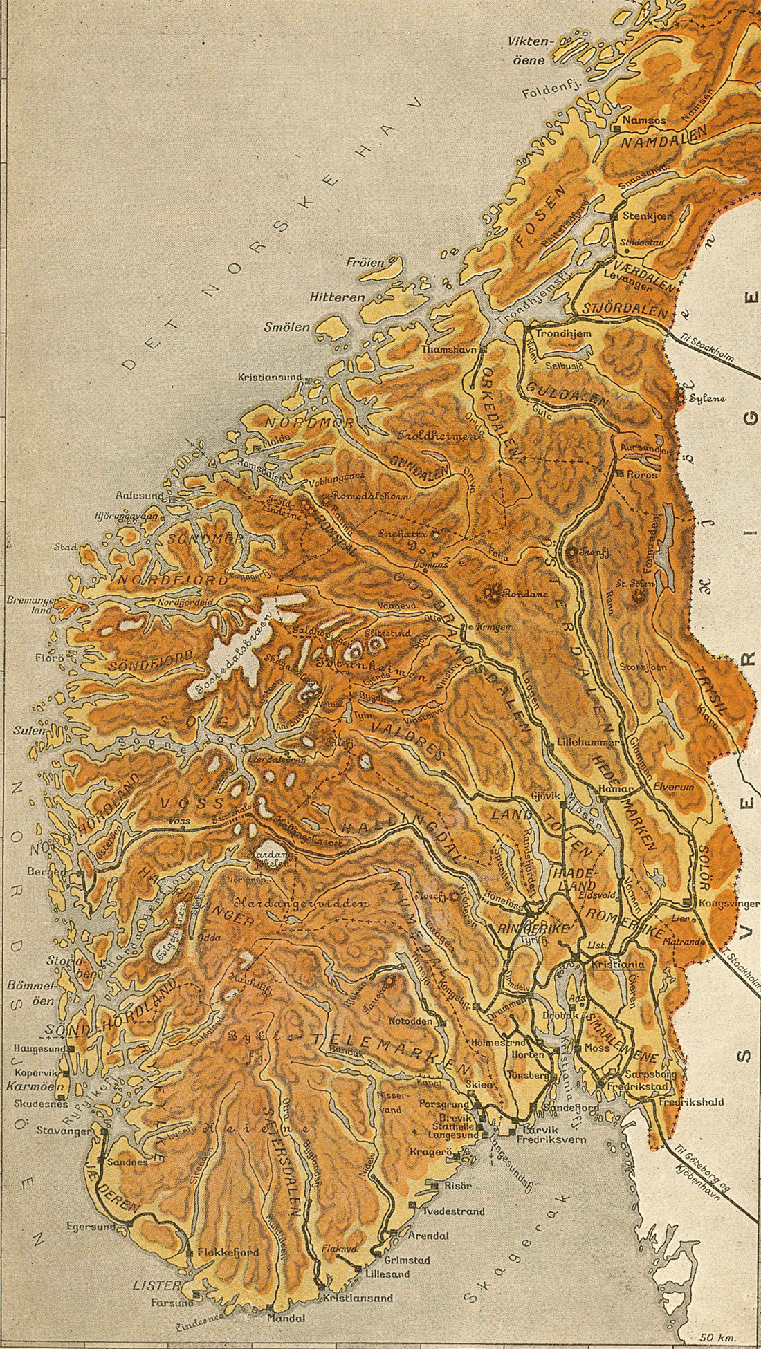 Map of railways in Norway, 1914